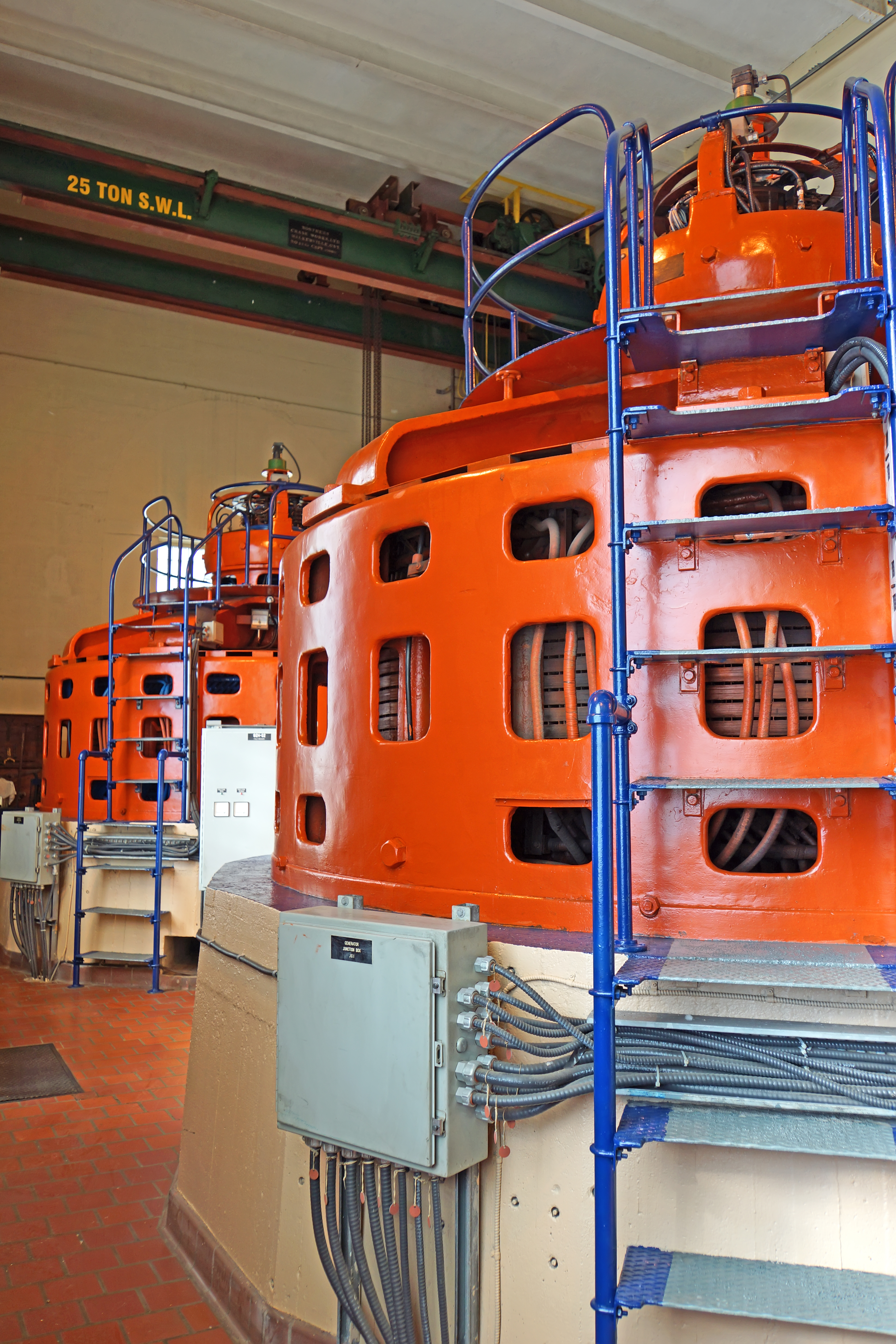 The Generator is the business end of the hydro-electric system and is rotated by the turbine below, which produces the electricity to be sent to the main grid to be used by the consumer. The Generators were made by General Electric Co limited from Peterborough, Toronto, Ontario, Canada. 2900 KVA 13,200 Volts 127 Amps